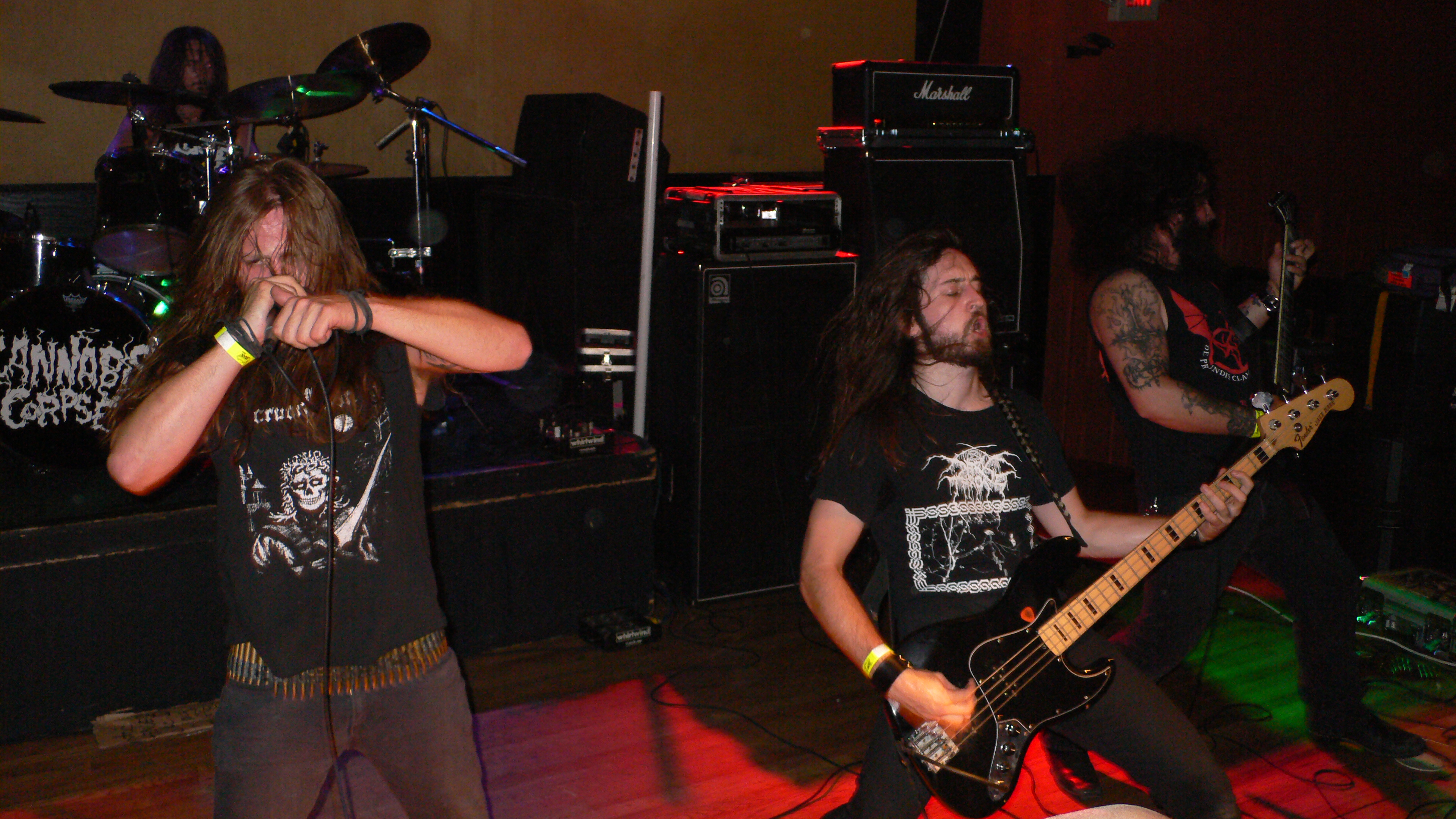 Cannabis Corpse performing at JAXX Concert Hall & Nightclub, 2010. Left to right: Dave Hall (drummer), Andy Horn, Land Phil, Brent Legion.